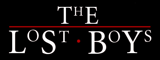 Official logo of the movie The Lost Boys